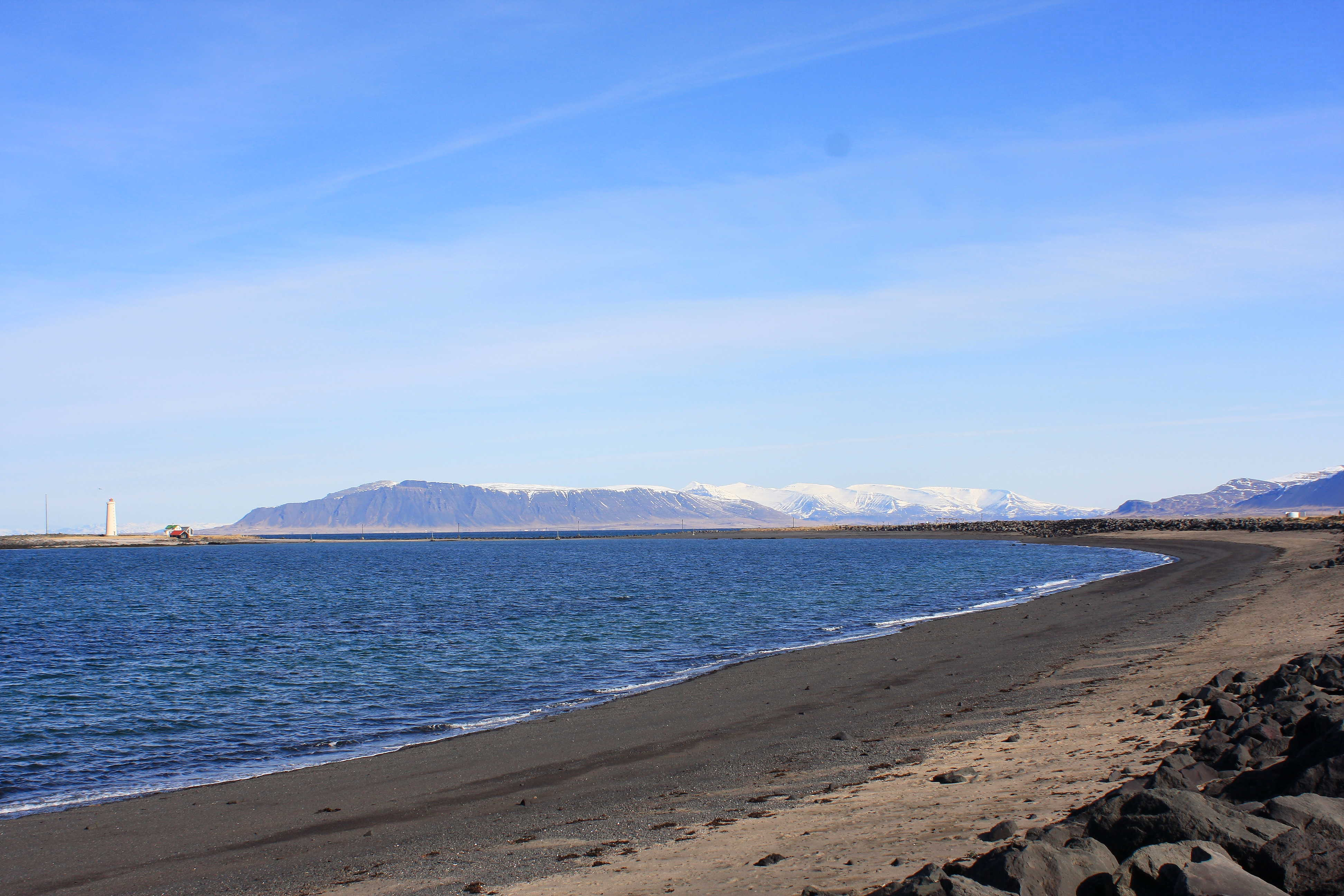 Kokomo Artist(Band):Beach Boys Aruba, Jamaica, ooh I wanna take ya Bermuda, Bahama, come on pretty mama Key Largo, Montego, baby why don't we go, Jamaica Off the Florida Keys there's a place called Kokomo That's where you wanna go to get away from it all Bodies in the sand, tropical drink melting in your hand We'll be falling in love to the rhythm of a steel drumband Down in Kokomo Aruba, Jamaica, ooh I wanna take you to Bermuda, Bahama, come on pretty mama Key Largo Montego, baby why don't we go Ooh I wanna take you down to Kokomo, we'll get there fast and then we'll take it slow That's where we wanna go, way down in Kokomo. Martinique, that Monserrat mystique... We'll put out to sea and we'll perfect our chemistry By and by we'll defy a little bit of gravity Afternoon delight, cocktails and moonlit nights That dreamy look in your eye, give me a tropical contacthigh Way down in Kokomo Aruba, Jamaica, ooh I wanna take you to Bermuda, Bahama, come on pretty mama Key Largo Montego, baby why don't we go Ooh I wanna take you down to Kokomo, we'll get there fast and then we'll take it slow That's where we wanna go, way down in Kokomo. Port au Prince, I wanna catch a glimpse... Everybody knows a little place like Kokomo Now if you wanna go to get away from it all Go down to Kokomo Aruba, Jamaica, ooh I wanna take you to Bermuda, Bahama, come on pretty mama Key Largo Montego, baby why don't we go Ooh I wanna take you down to Kokomo, we'll get there fast and then we'll take it slow That's where we wanna go, way down in Kokomo. Aruba, Jamaica, ooh I wanna take you to Bermuda, Bahama, come on pretty mama Key Largo Montego, baby why don't we go...